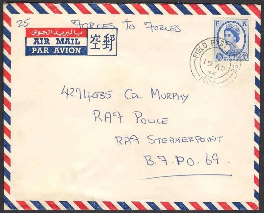 1965 cover BFPO 1002 to RAF Steamerpoint BFPO 69.